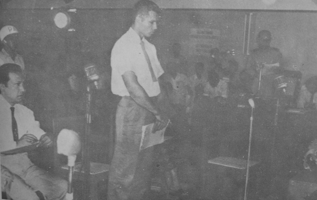 Allen Pope during his trial in Jakarta, 28 December 1959